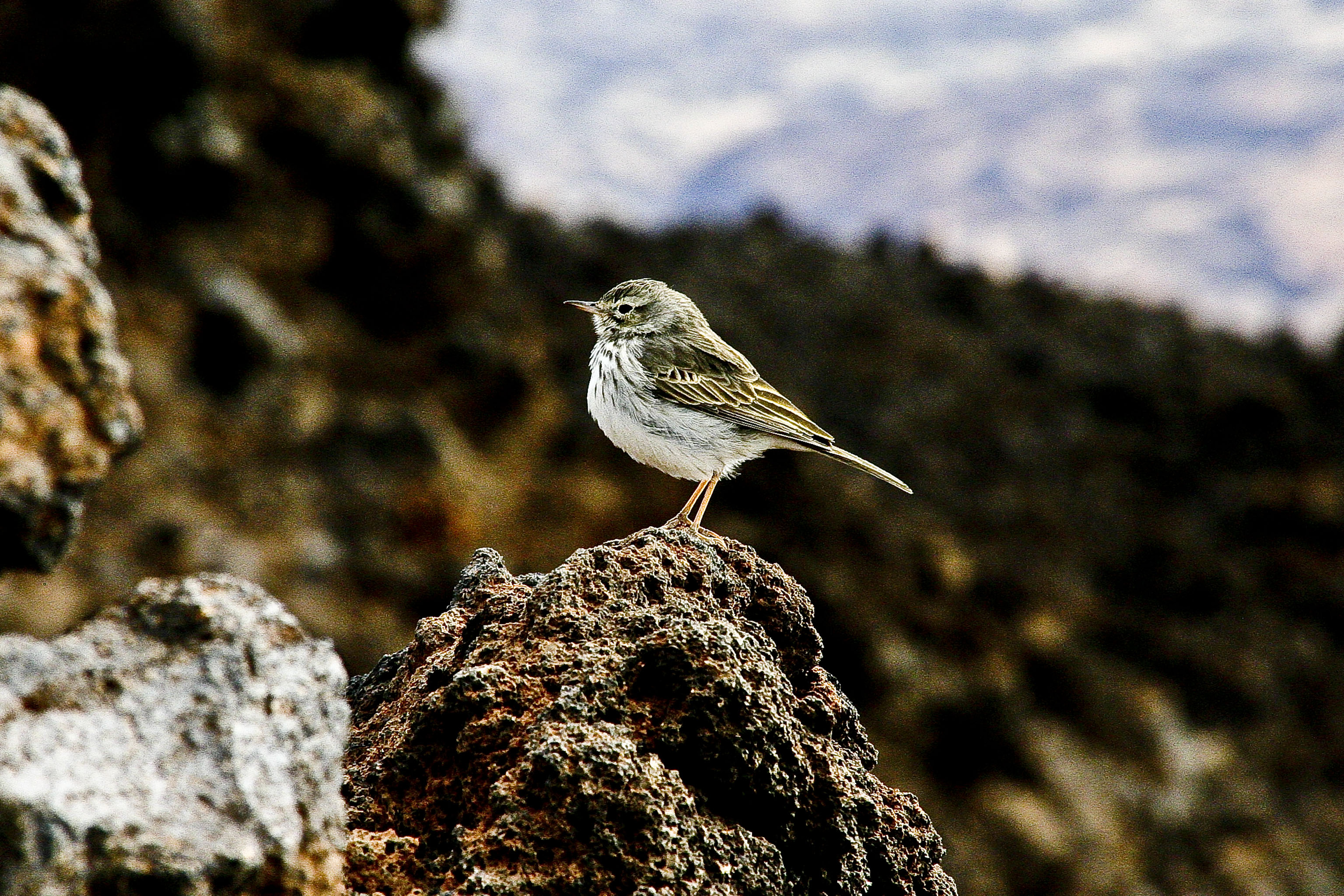 Anthus berthelotii, Teide, Tenerife, Islas Canarias